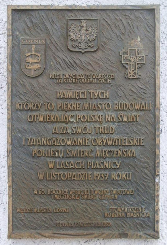 Plaque commemorate victims of murder Piaśnica November 1939 (germanic war crime). Situated at Collegiate Church in Gdynia.